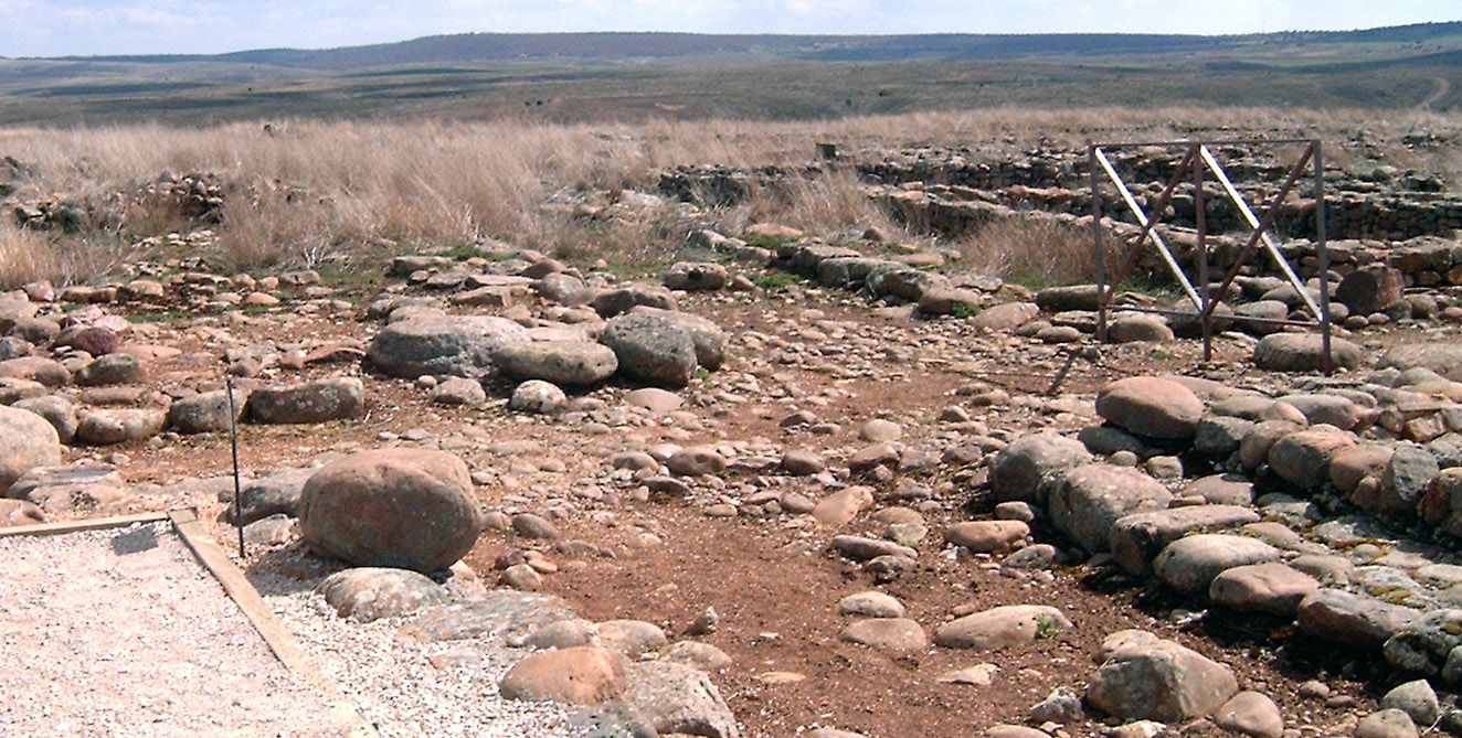 Street crossing in the ruins of Numantia, Soria, Spain.